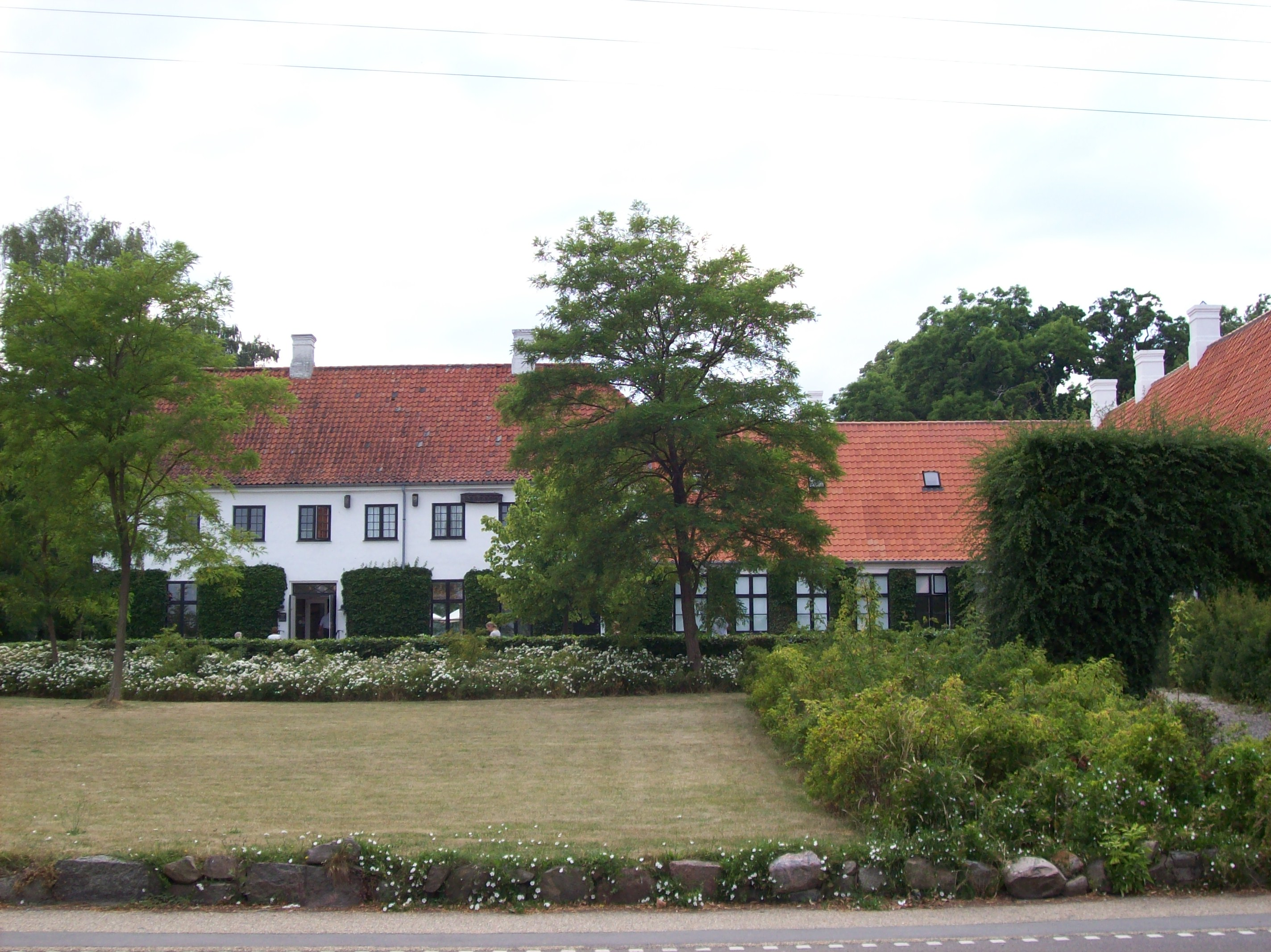 Karen Blixen museum